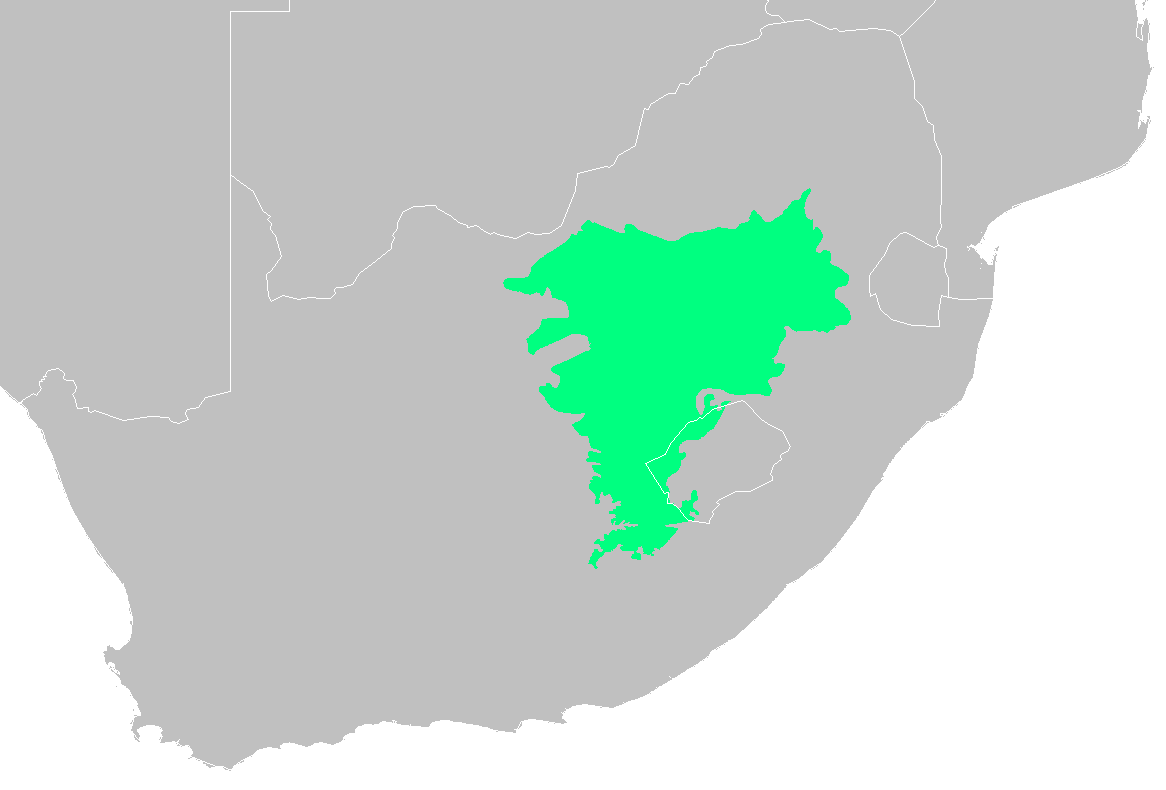 The Highveld grasslands